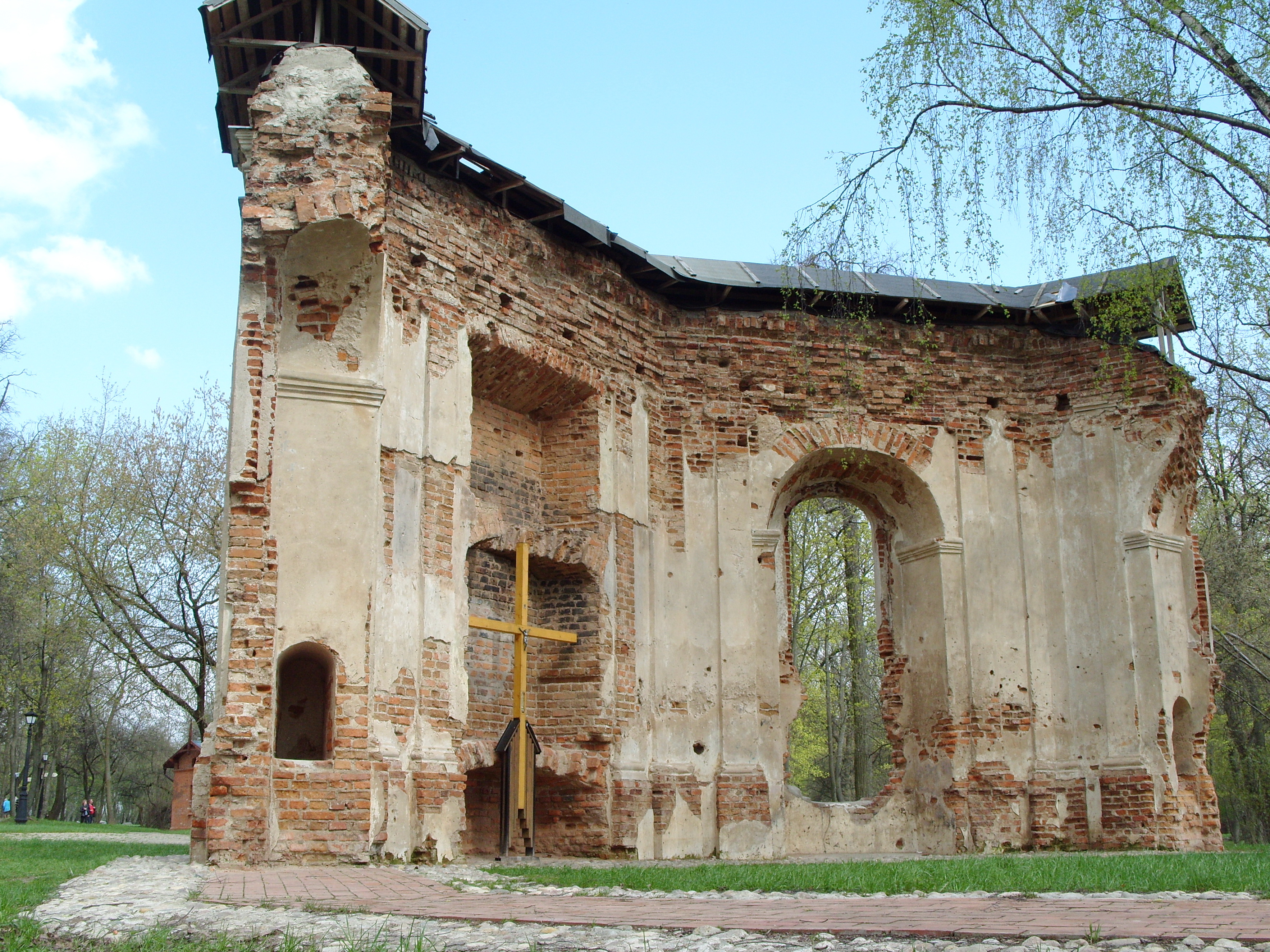 Беларуская (тарашкевіца): Рэшткі капліцы ў Лошыцы This is a photo of Belarusian heritage monument. Reference number: 712Г000266 ( WLM)